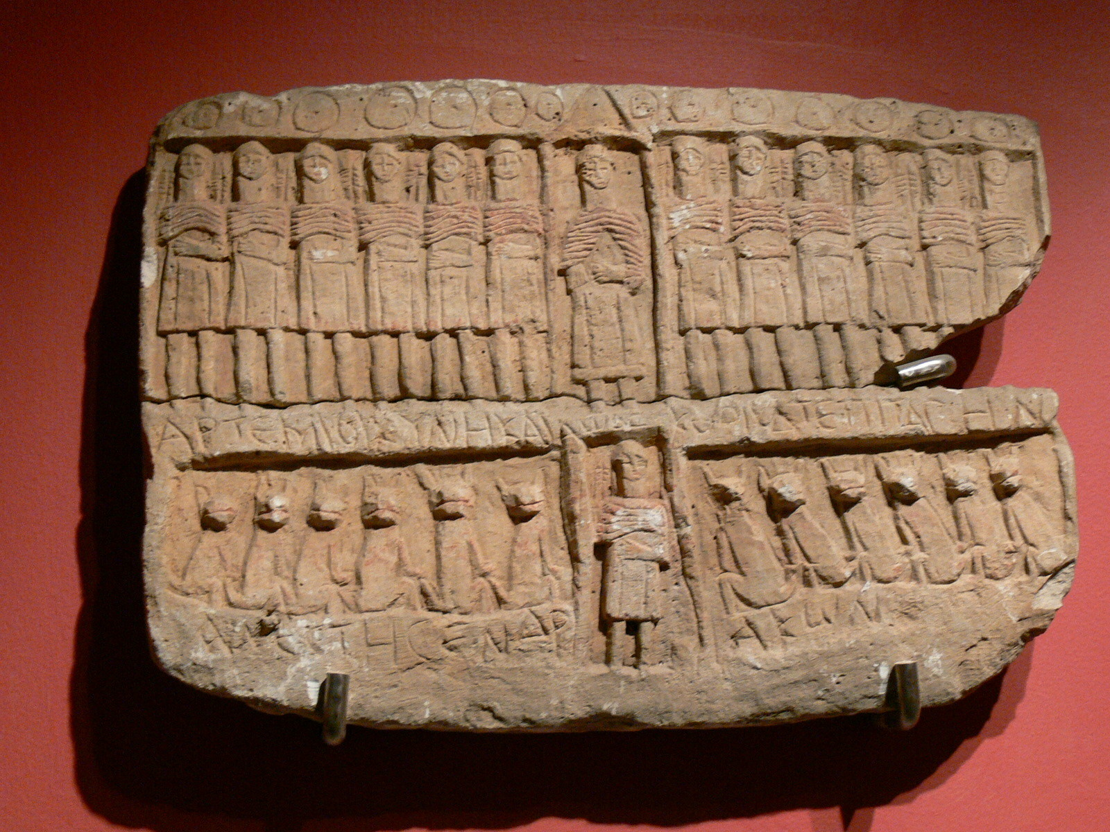 Antalya Archaeological Museum. Lycian stele ( 3rd century AD ) dedicated to "Artemisia, 12 gods and their father ( Zeus )".